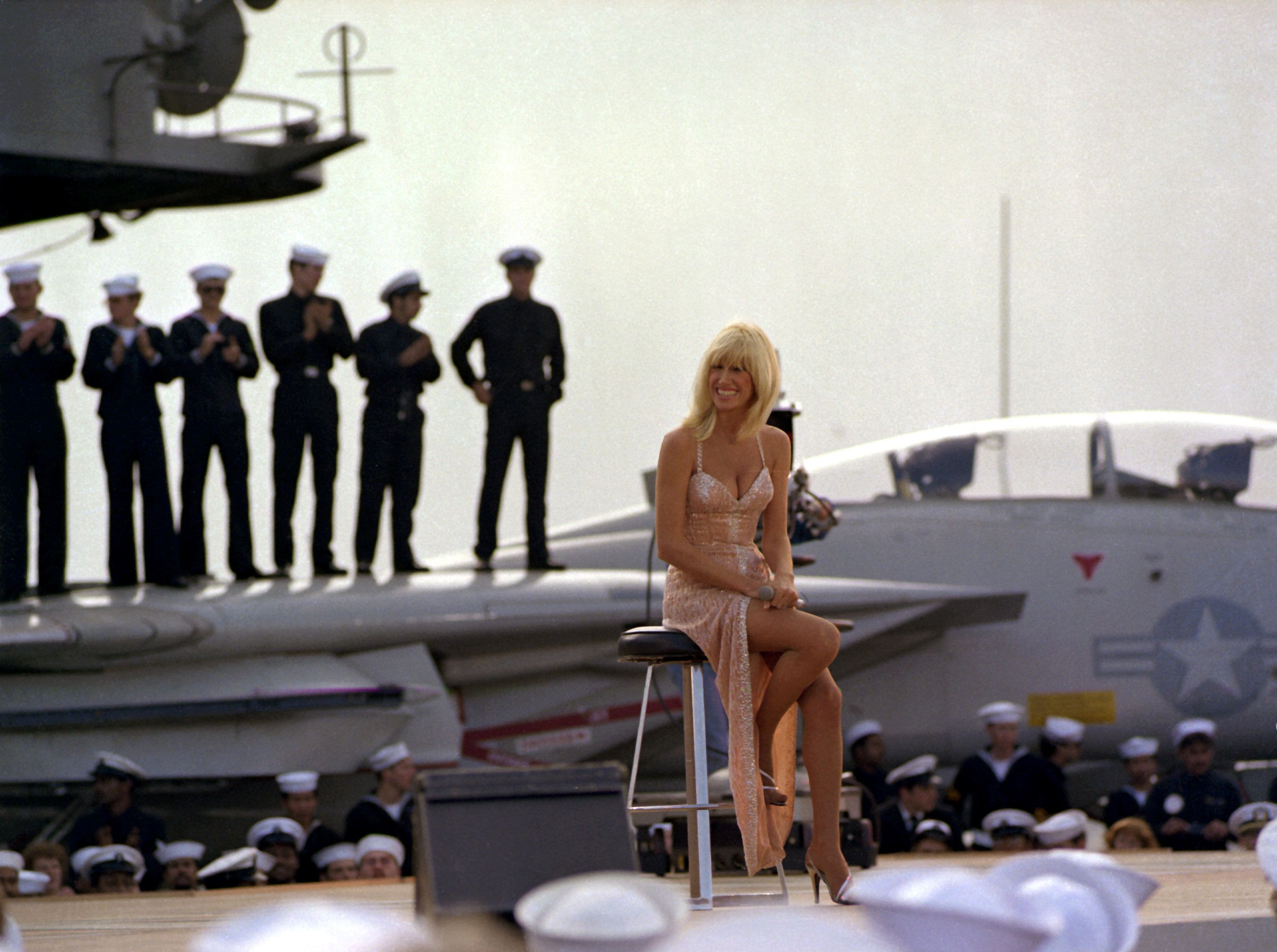 Suzanne Somers entertains the crew aboard the aircraft carrier USS RANGER (CV-61).